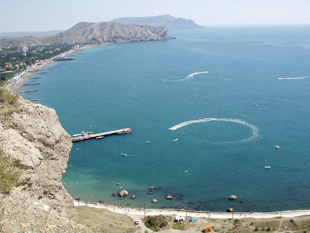 Bay of Sudak in the Crimea. Attribution information, such as the author's name, e-mail, website, or signature, that was once visible in the image itself has been moved into the image metadata and/or image description page. This makes the image easier to reuse and more language-neutral, and makes the text easier to process and search for. Commons discourages placing visible author information in images. Removed watermark read: [castle logo]